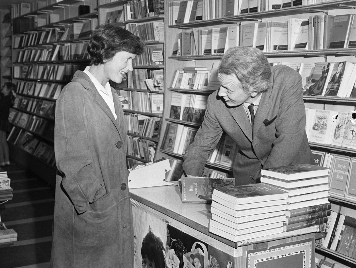 FOTOGRAFIFörfattaren Per Anders Fogelström signerar sin bok Barn av sin stad i J E Dahlbergs Bokhandel på Odengatan 75. 1962-1962FOTOGRAF: Waldö (Aftonbladet). AftonbladetBILDNUMMER: AB 1085Stadsmuseet i Stockholm